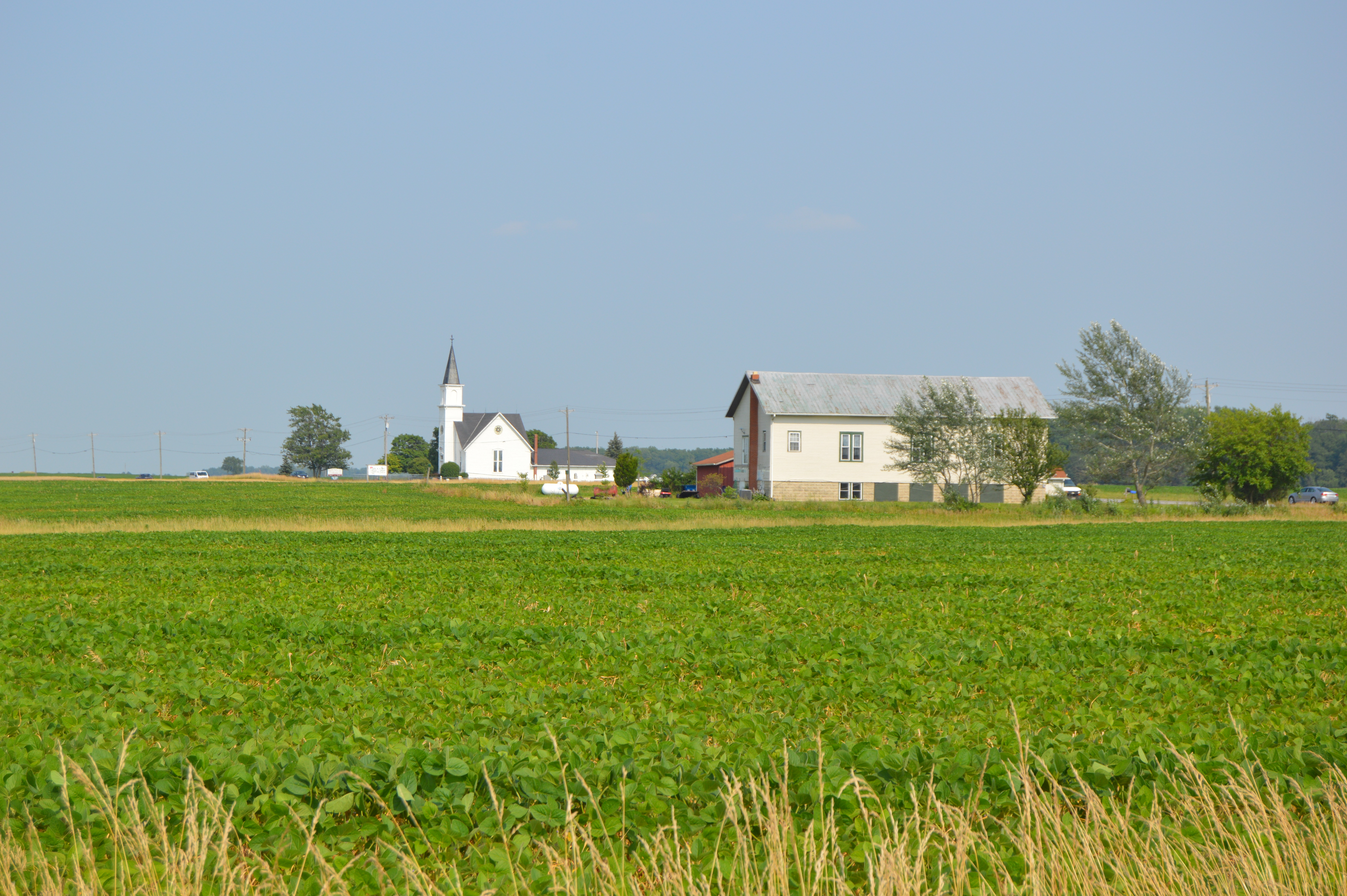 Looking eastward from Township Road 255 along U.S. Route 224 south of Arcadia in Biglick Township, Hancock County, Ohio, United States. The nearer building is an old grange hall, while the farther building is the Enon Valley Presbyterian Church, 20307 U.S. Route 224.